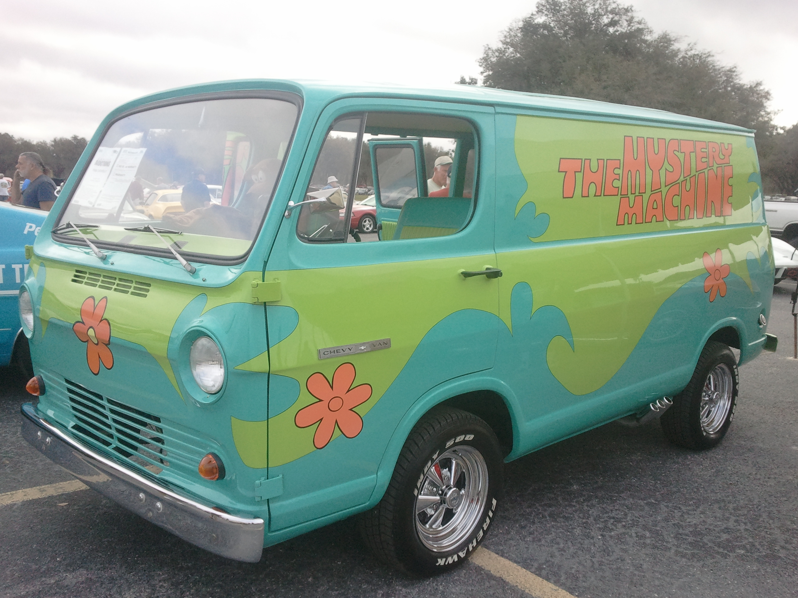 Scooby Dooby Doo, where are you? Zephyrhills Winter Autofest 2014.